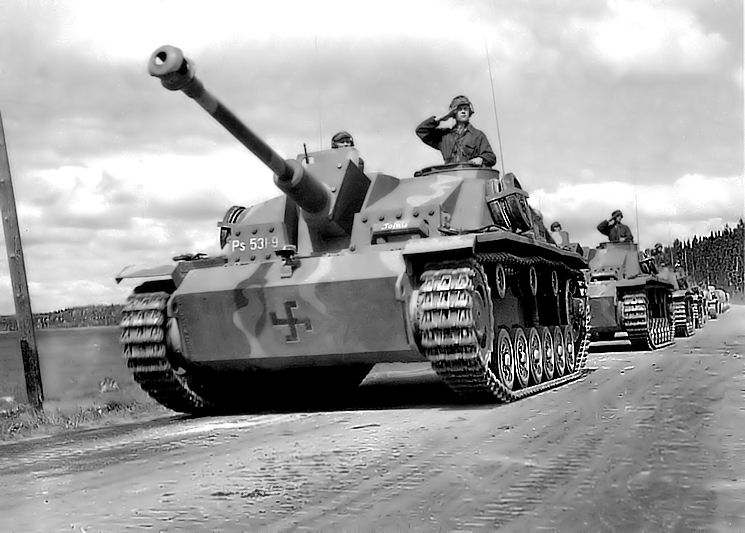 Sturmgeschütz 40 Auf. G Enso parade 4 June 1944